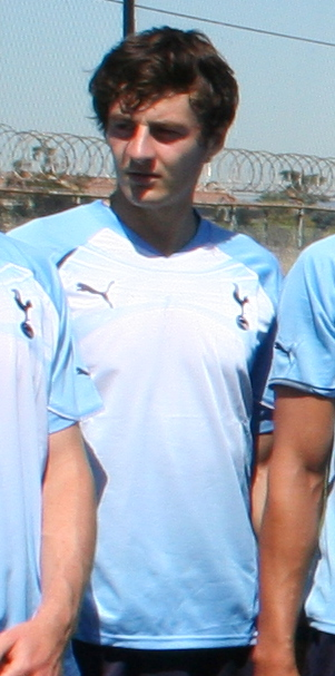 Players of Tottenham Hostpur posing with San Francisco 49ers' Alex Smith and Joe Staley